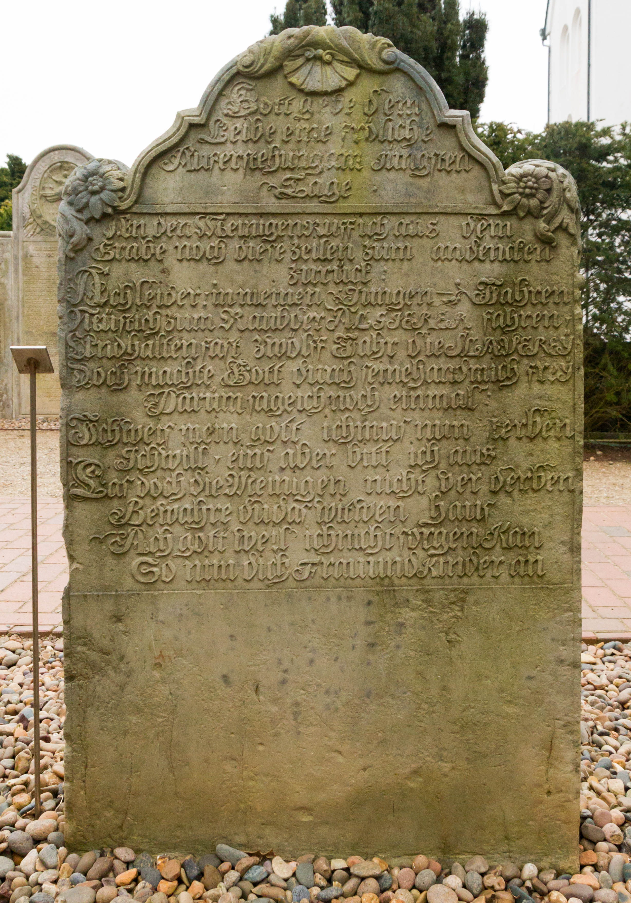 The making of this document was supported by the Community-Budget of Wikimedia Germany. Gravestones in Amrum